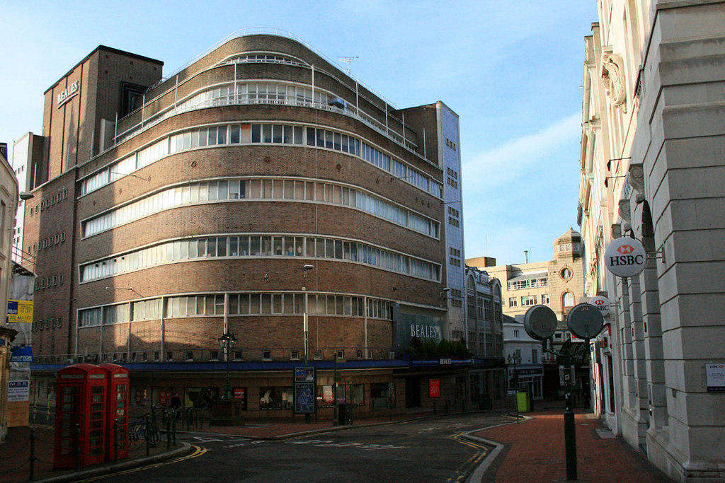 Beales in Bournemouth I have as yet not been able to find any detailed information about this magnificent building. The Beales shop which previously stood on this spot was destroyed (or fatally damaged) in an air raid carried out by Focke-Wulf fighter bombers on 23rd May 1943. There has been a Beales shop on the site since at least 1881. This was taken from Old Christchurch Road.